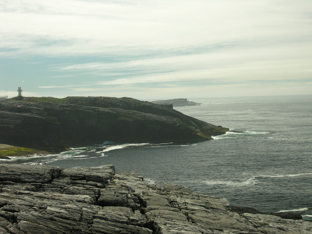 Haskeir Lighthouse and Haskeir Eagach View looking southwest towards the lighthouse. Haskeir Eagach can be seen in the distance.